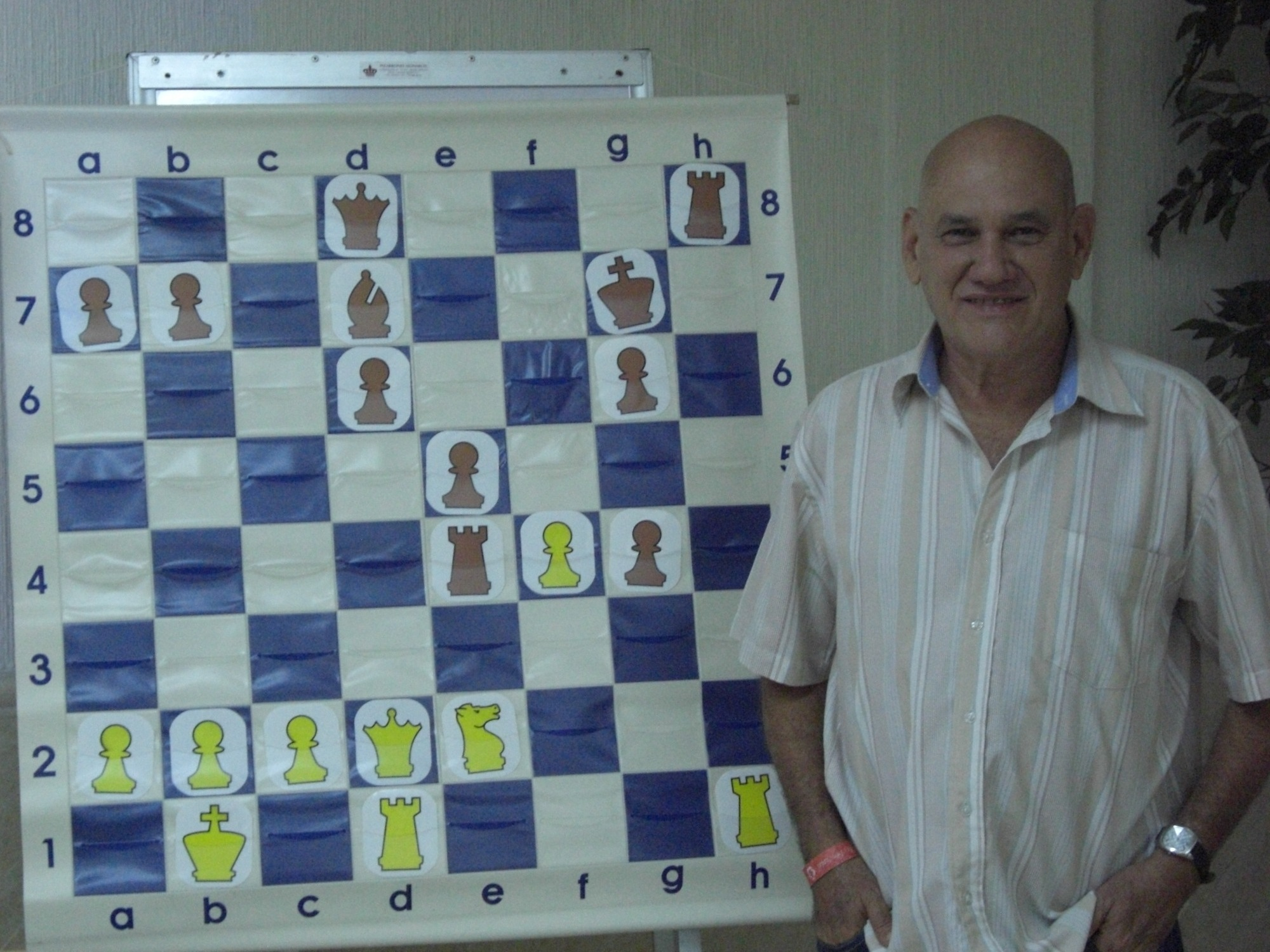 Silvino Garcia Martinez during the American Continental Chess Championship in Toluca (Mexico), April 2011